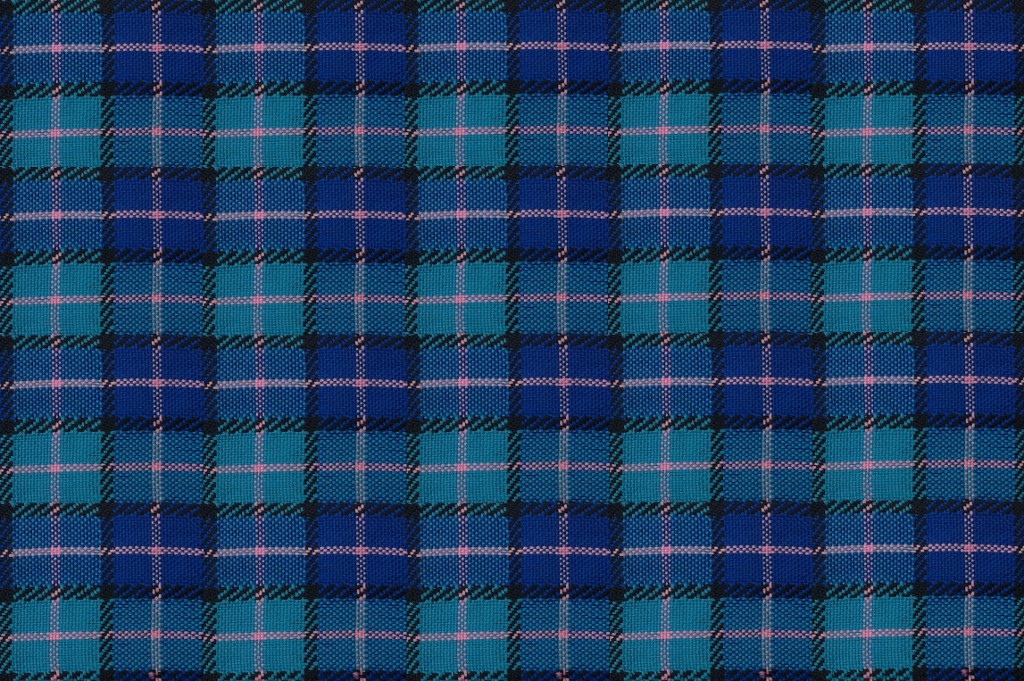 This is the design pattern used by Santisimo Rosario National High School for girls' blouse, skirt, and belt